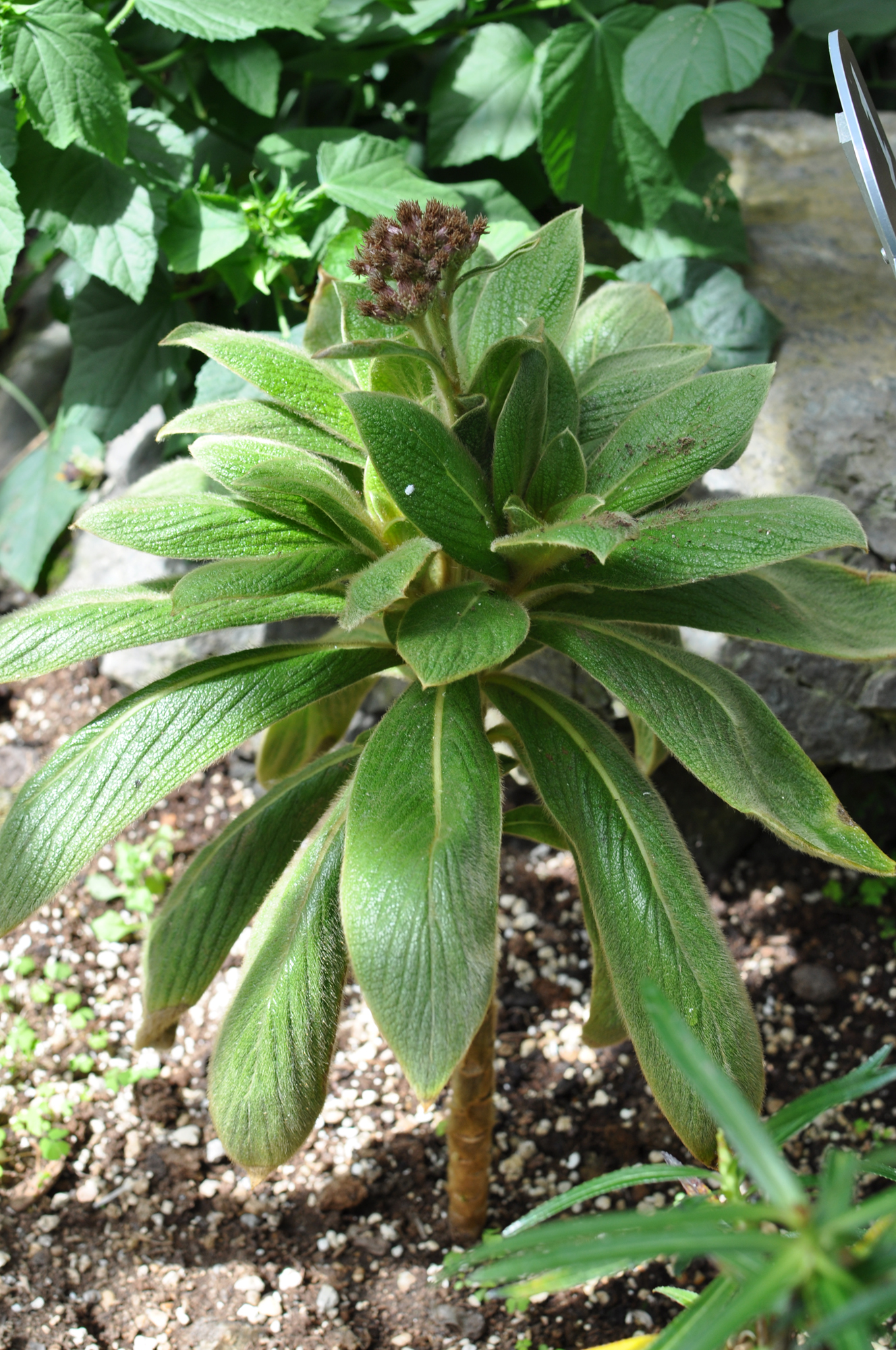 Cylindrocline lorencei Conservatoire botanique national de Brest Native nameConservatoire botanique national de BrestLocationBrest, FranceCoordinates48° 24′ 10.35″ N, 4° 26′ 53.58″ W Established1975: established, 1978: opened to publicWeb page control : Q2994486 ISNI: 0000 0000 9261 8684 LCCN: no95047958 WorldCat institution QS:P195,Q2994486